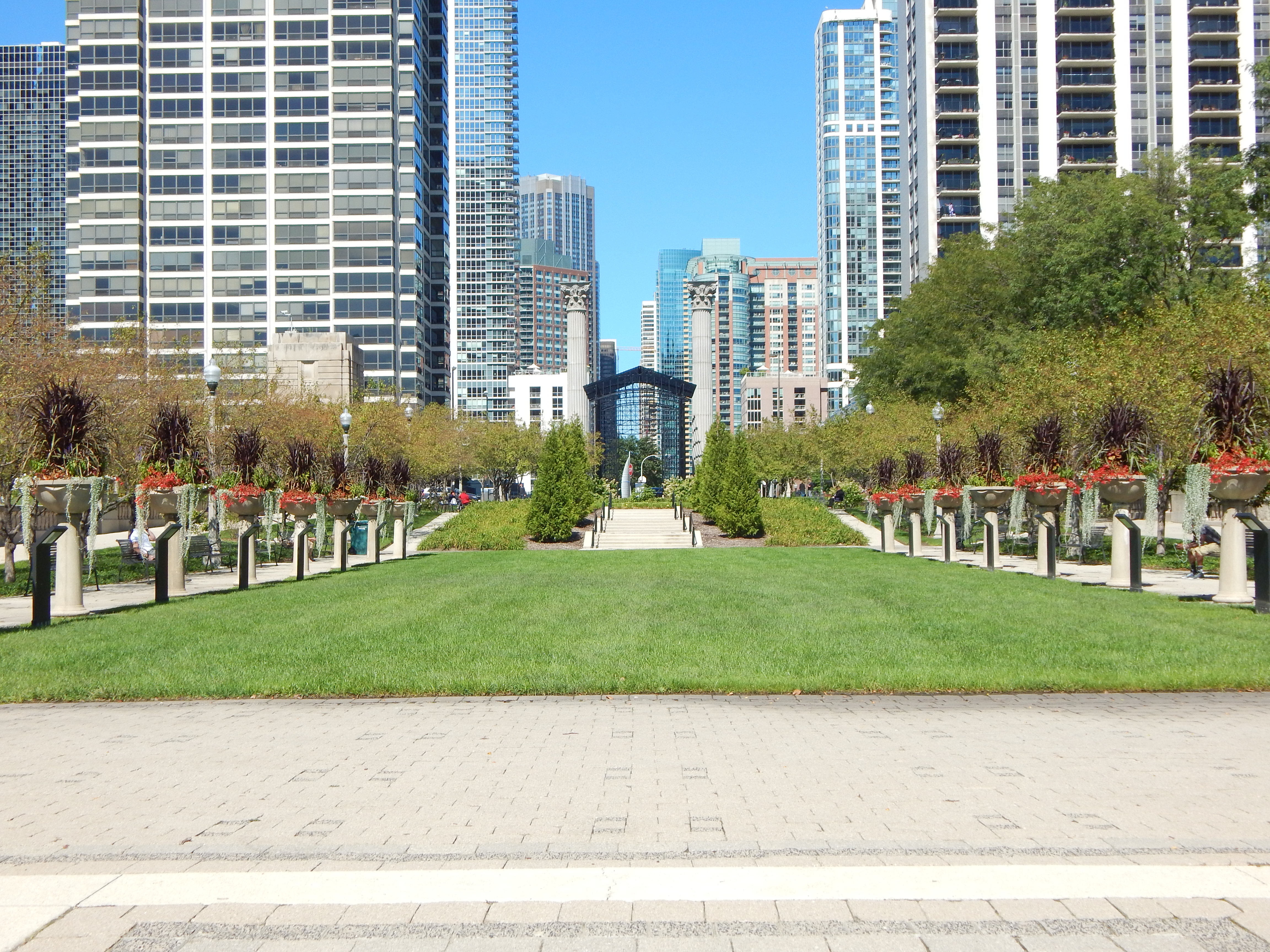 Perenial Garden of the Cancer Survivors Garden in Maggie Daley Park.